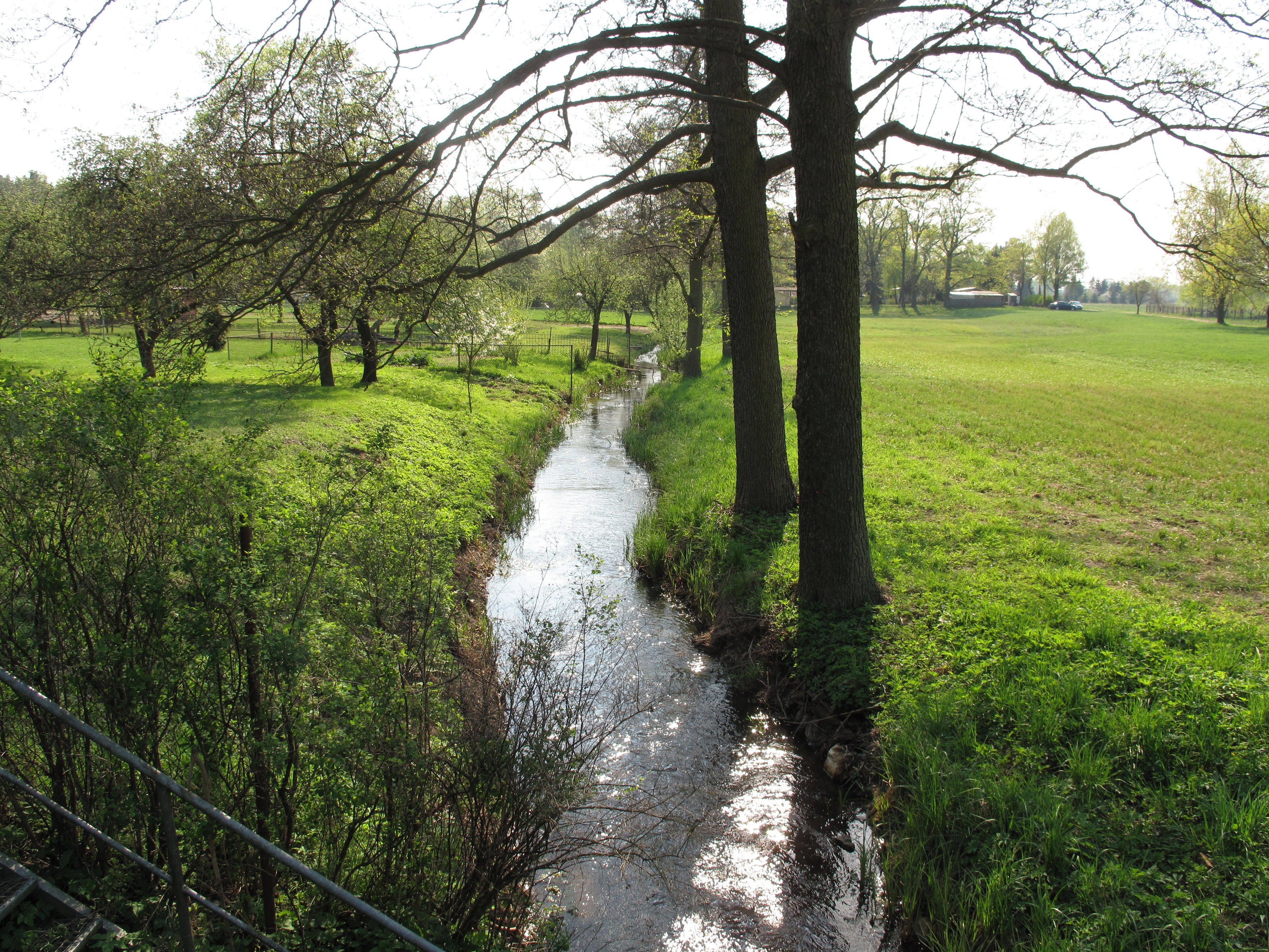 Stobberbach in Heidekrug, part of the town Müncheberg. The Stobberbach (also called Stöbberbach or Köpernitz) is a river in the hill country „Märkische Schweiz“, Brandenburg, Germany. The stream runs over a distance of 6 kilometers from the lowland moor and source area Rotes Luch towards the southwest to the district Kienbaum of the municipality Grünheide. Here it merges with the Mühlenfließ (coming from the Maxsee) to the river Löcknitz (Spree), whose waters run over the rivers Spree, Havel and Elbe to the North Sea.